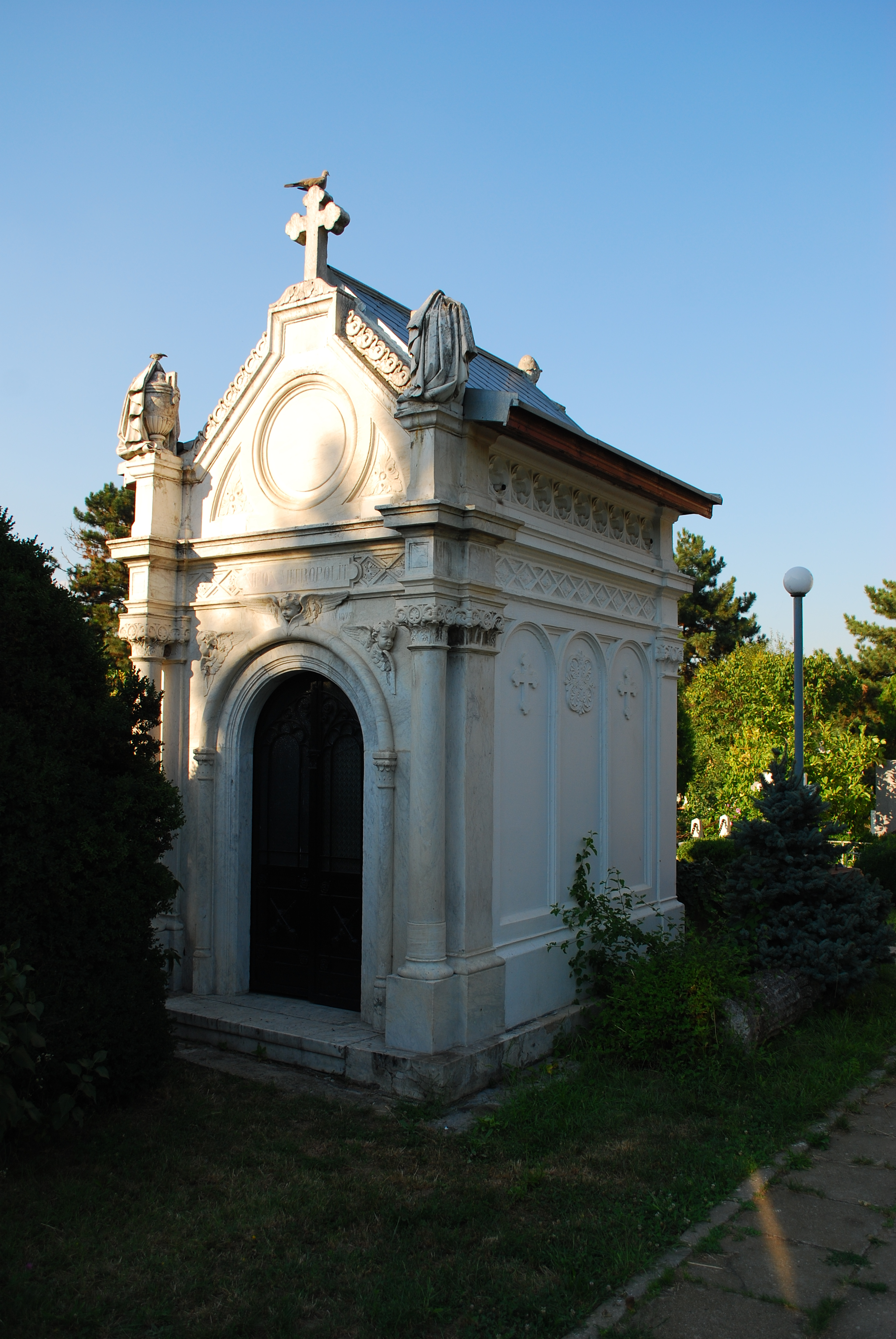 Metropolitan Nifon's tomb, in the Cernica monastery cemetery in Pantelimon, Ilfov County, RomaniaRomână: Cavoul mitropolitului Nifon, în cimitirul mănăstirii Cernica, oraşul Pantelimon, judeţul Ilfov, România